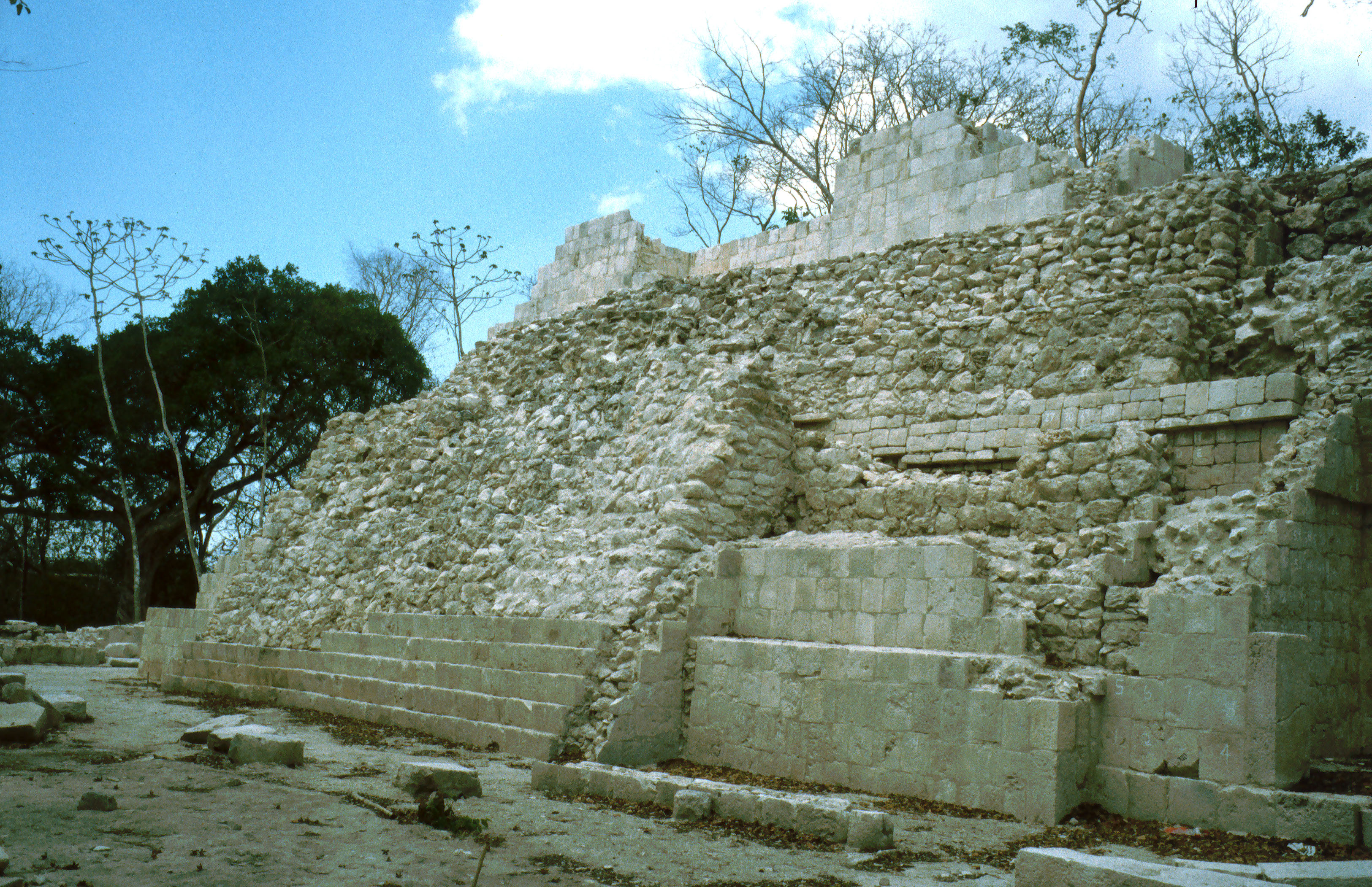 Acanmul, Campeche, Mexico: main palace.